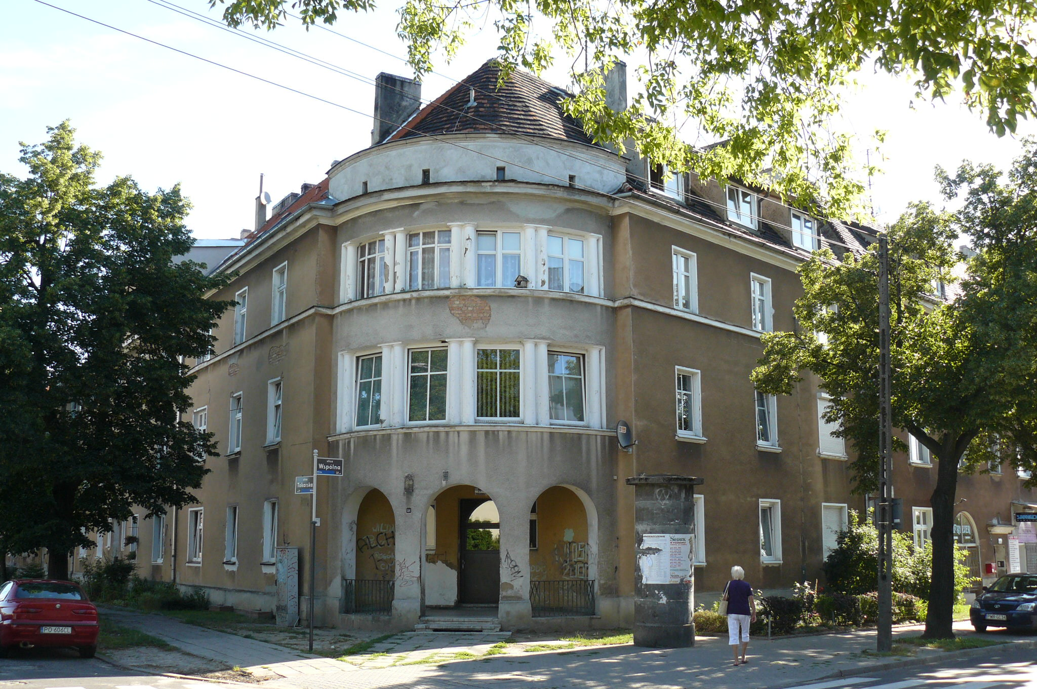 Poznan Wspolna Street, old social district.